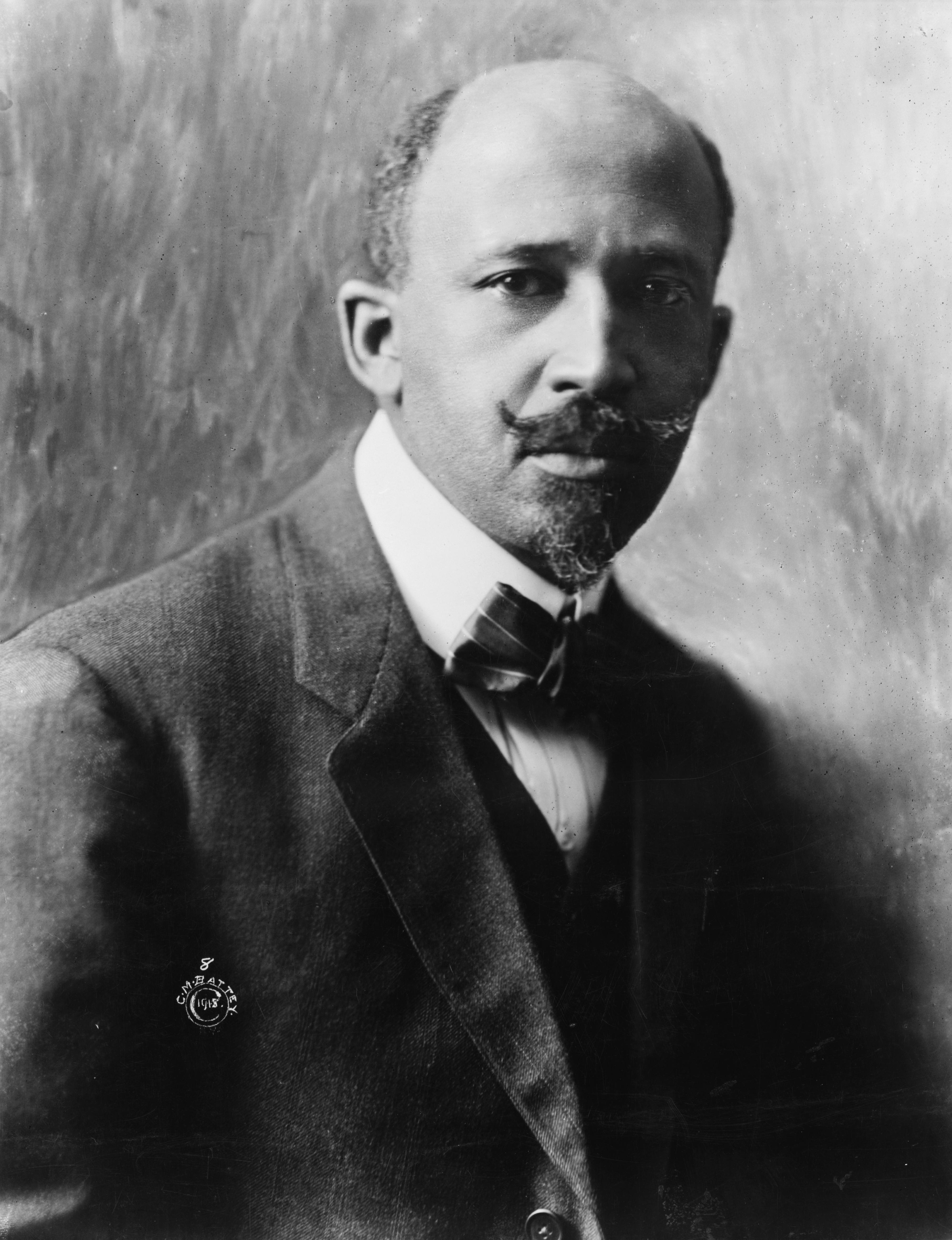 W. E. B. Du Bois (1868 – 1963), co-founder of the National Association for the Advancement of Colored People (NAACP), in 1918.